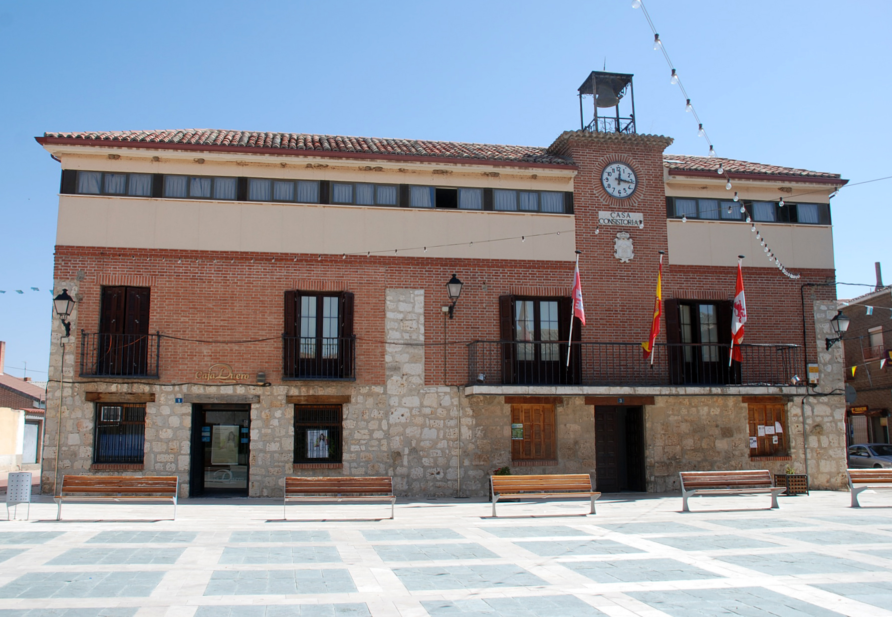 Town hall of Magaz de Pisuerga (Palencia, Castile and León).